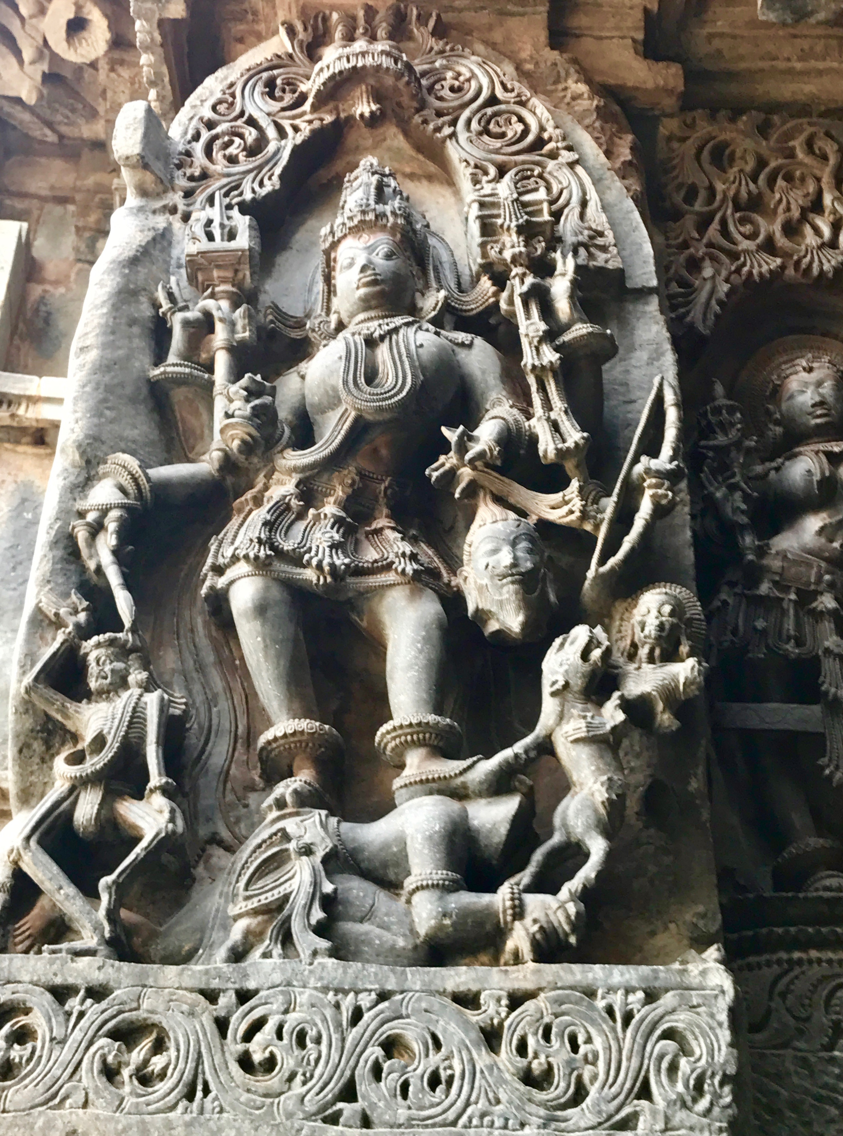 The Hoysaleswara Hindu temple is dedicated to Shiva. It was built in the first half of 12th century in Halebid (previously called Dwarasamudra, Hale bidu means "old capital"), sponsored by King Vishnuvardhana of the Hoysala Empire. During the early 14th century, Halebidu temple site along with others were sacked, looted and much artwork damaged (particularly nose/face, hands) by Muslim invaders from northern India (Khilji dynasty and Tughlaq dynasty of Delhi Sultanate). The temple belongs to the Shaivism tradition of Hinduism, yet reverentially presents its Vaishnavism and Shaktism tradition legends and ideas. The relief panels present legends from the Ramayana, the Mahabharata, the Puranas. Vedic deities such as Agni, Indra and Surya, various avatars of Vishnu, the Hindu goddesses such as Saraswati, Lakshmi avatars, Durga, Kali among others are presented. The carving is three dimensional where reliefs often emerge as statues with depth. Panels are continuous, with one perspective showing one part of the legend, a perpendicular perspective of the same column or wall or corner showing another part of the same legend. The carving material was soapstone.